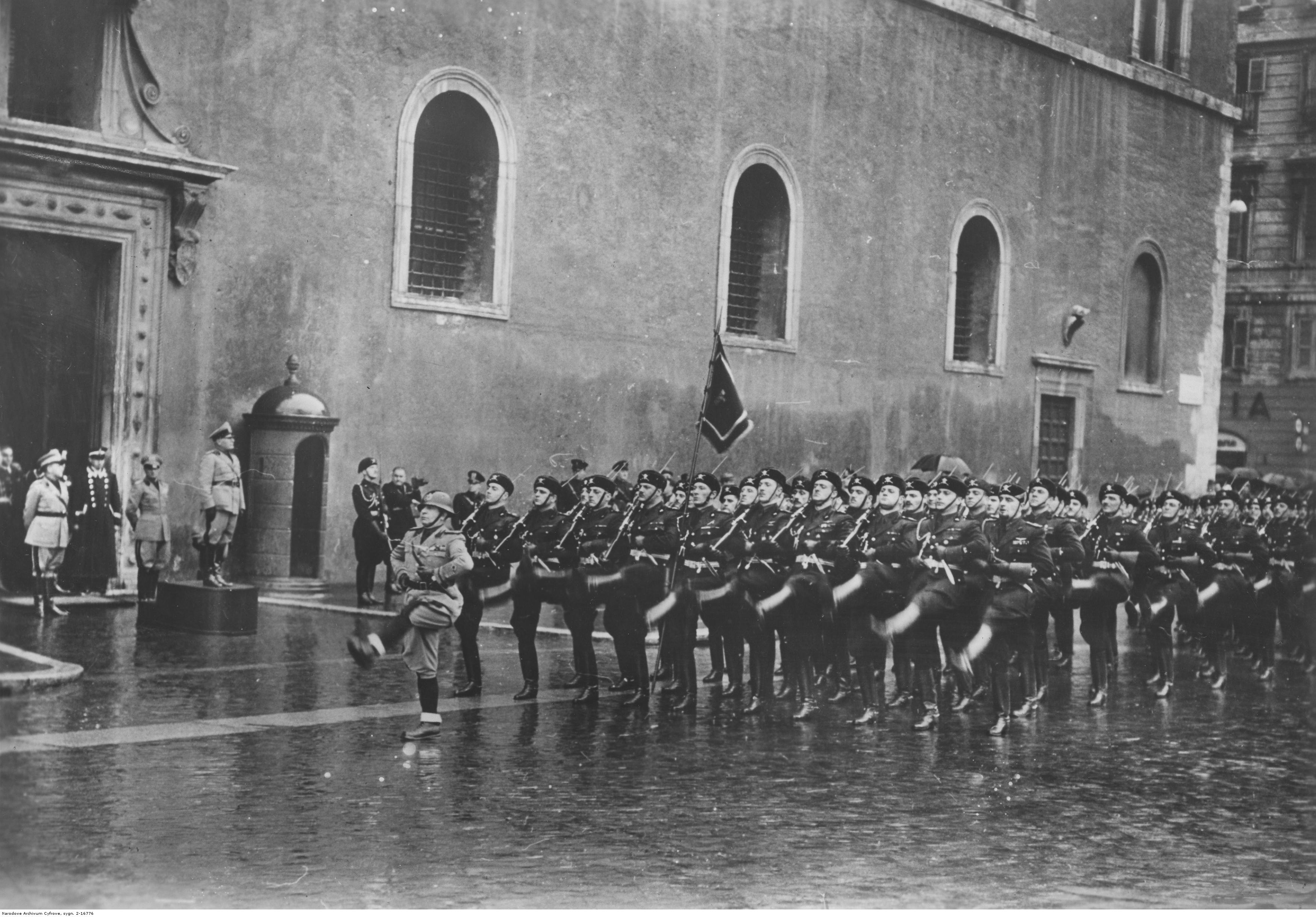 Parade for the 17th anniversary of MVSN at the Palazzo Venezia in Rome. Benito Mussolini greets from the platform the fascist "Musketeers".